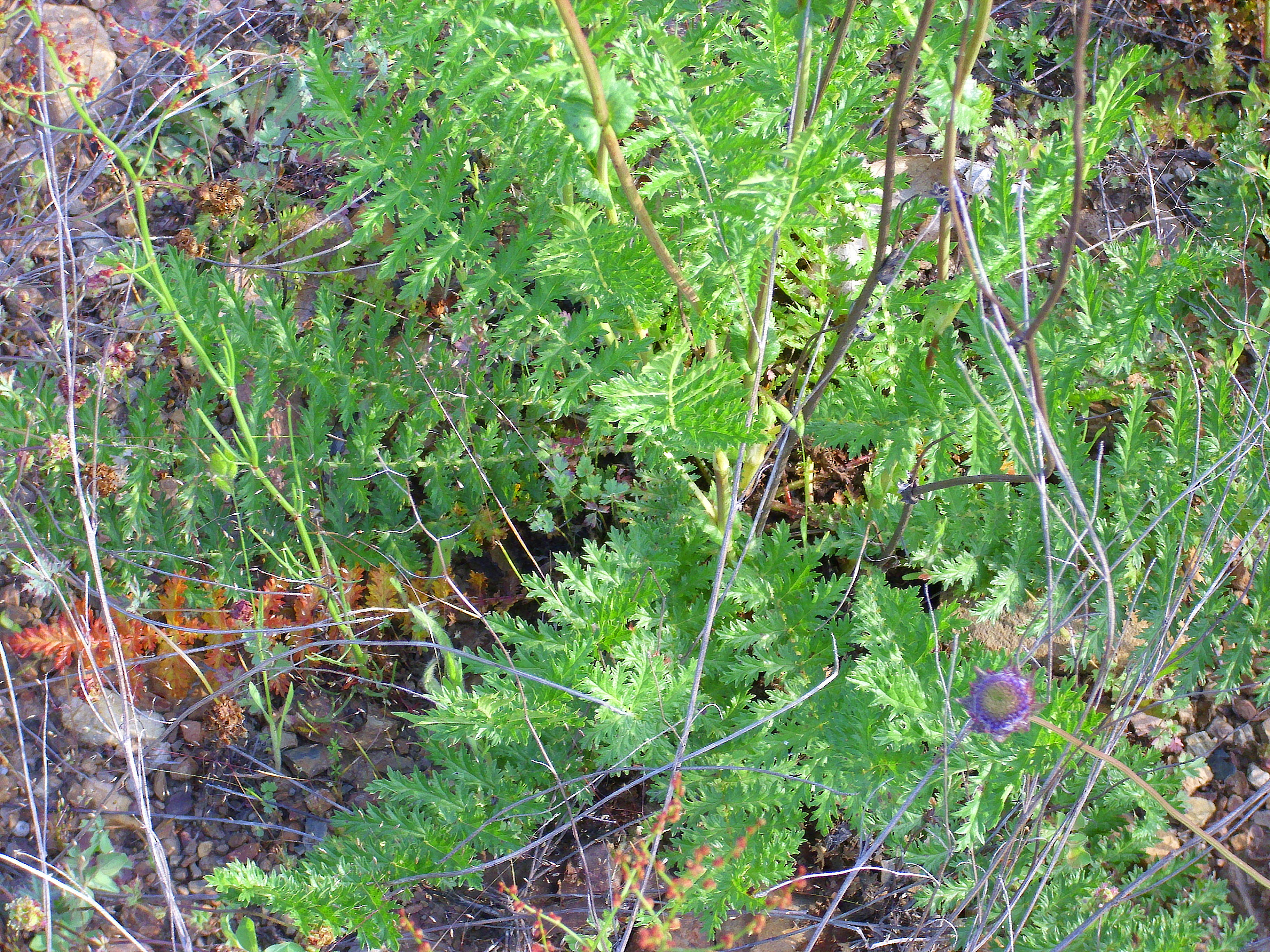 Filipendula vulgaris basal leaves rosette, Sierra Madrona, Spain